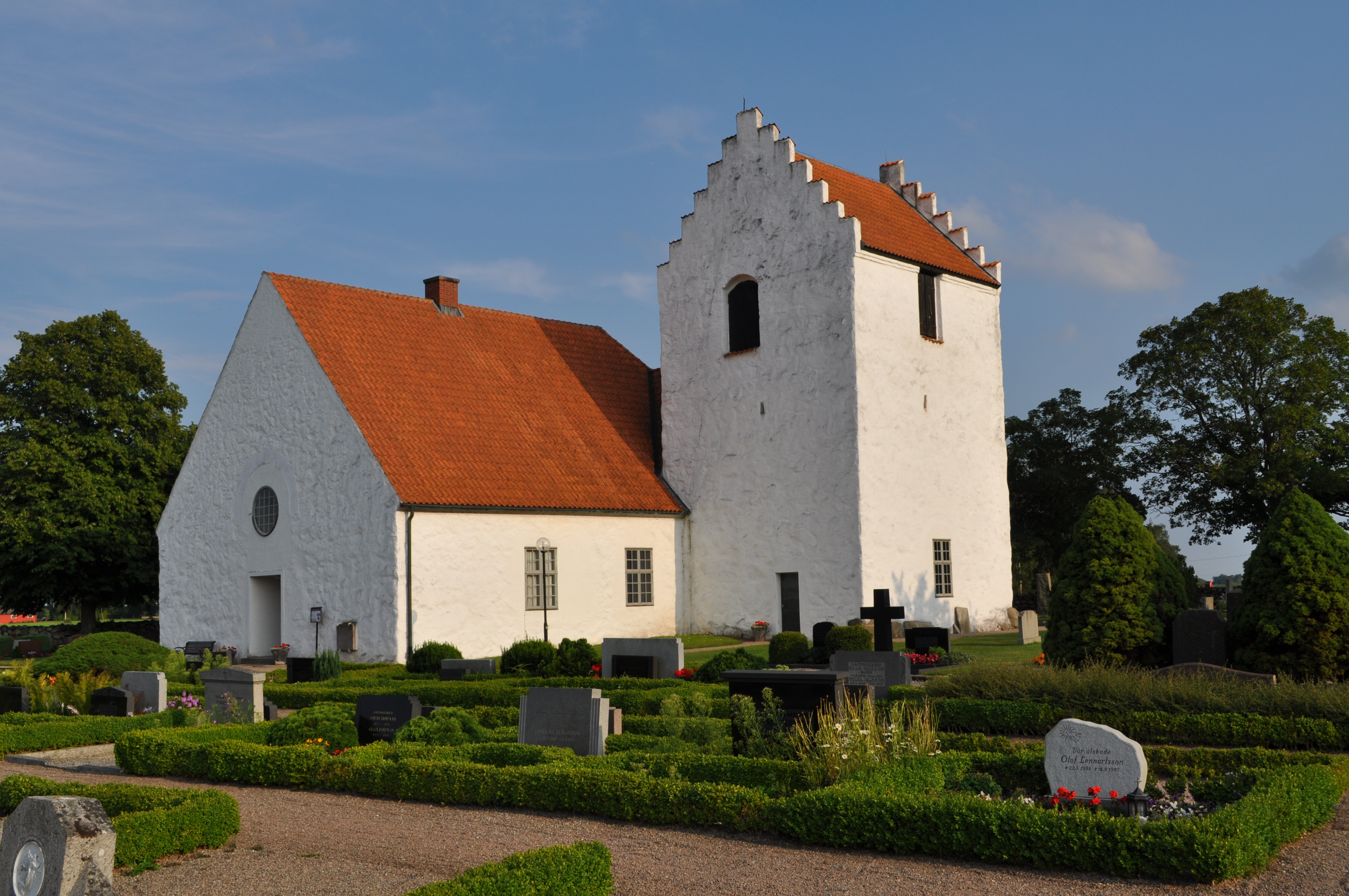 Kiaby church - kyrka